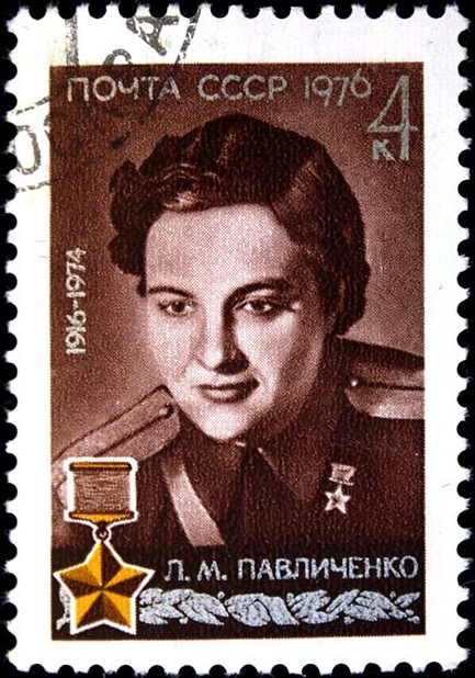 A USSR stamp, Lyudmila Pavlichenko, 1976, 4 kopecks